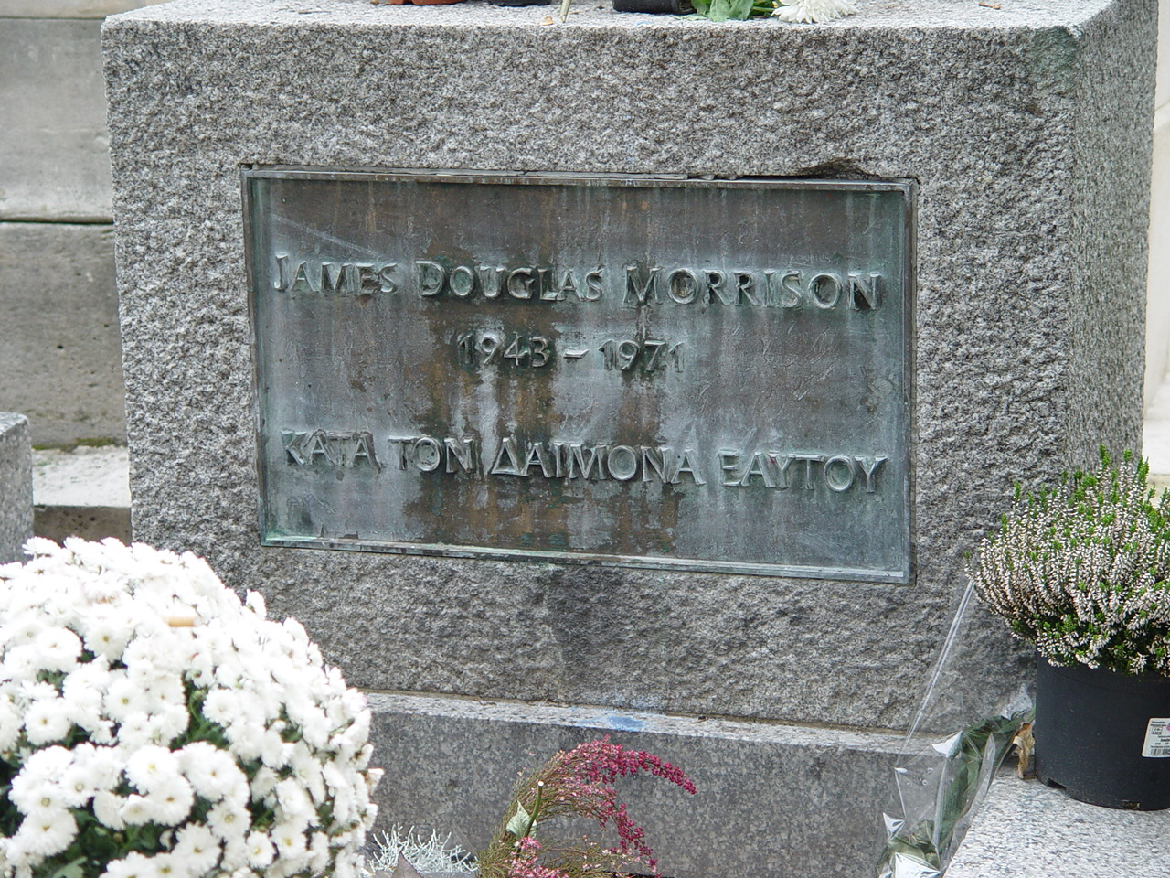 Jim Morrison